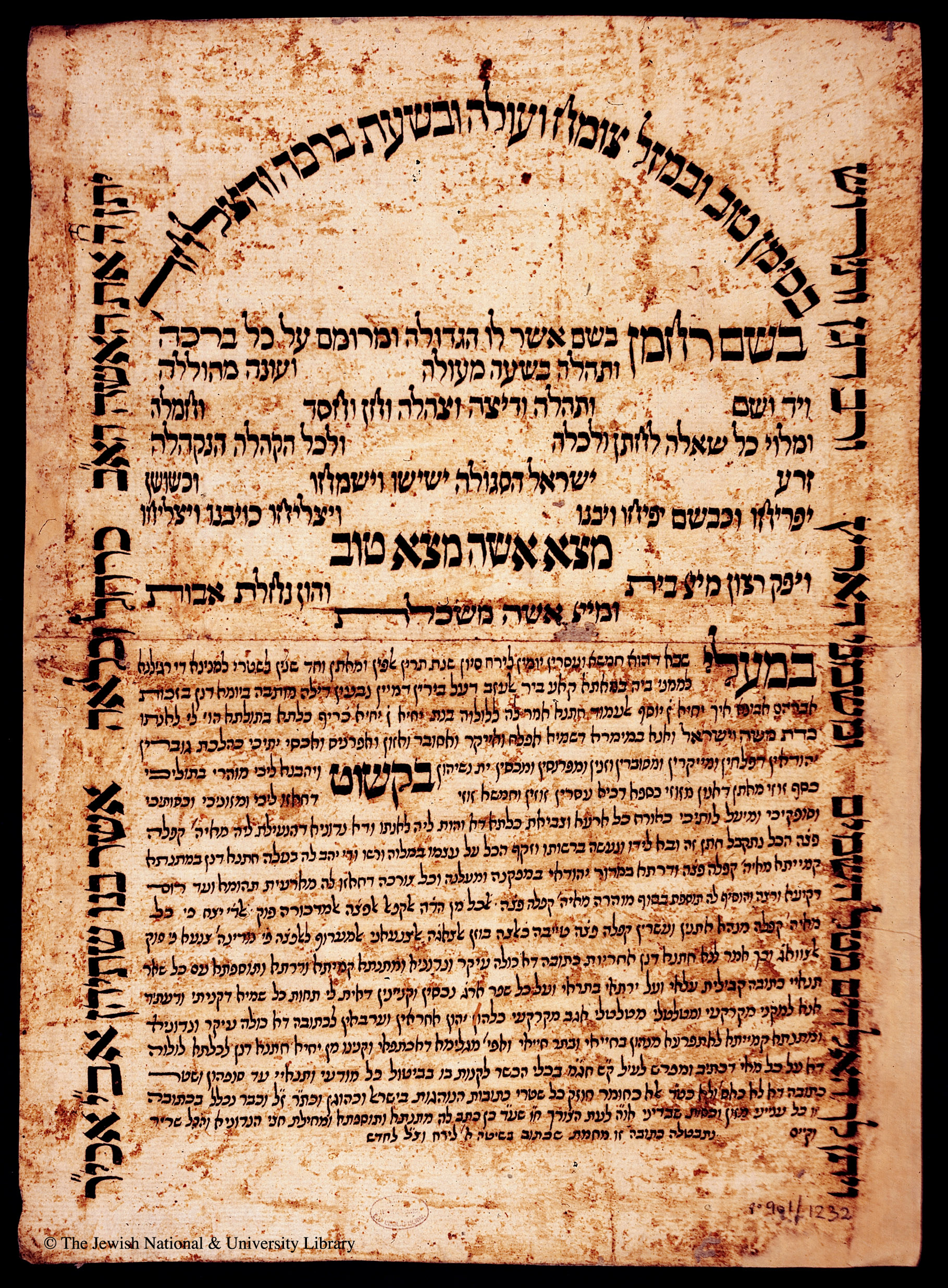 Ketubah from The Ketubot Collection of the National Library of Israel